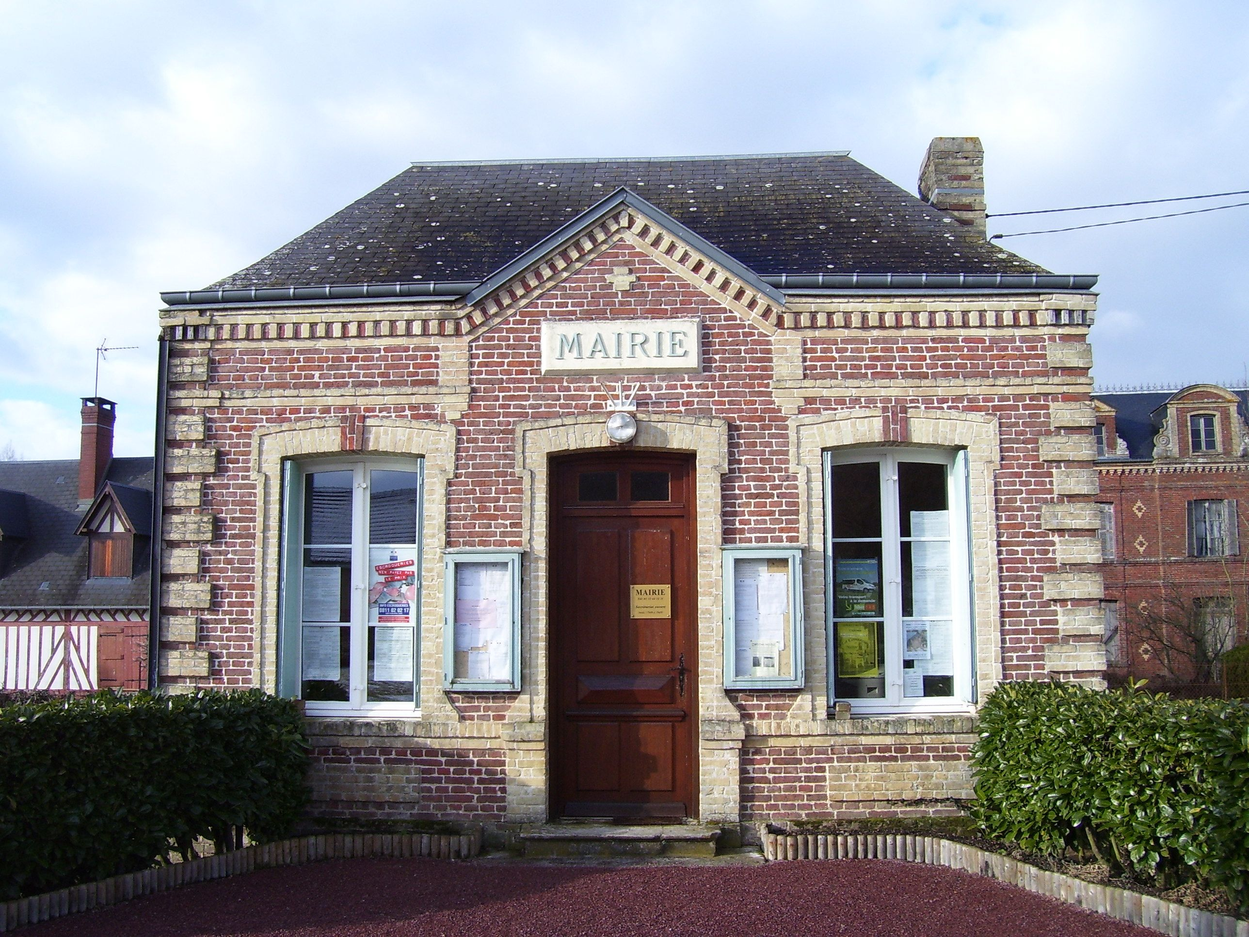 Office of the mayor in Morsan, Normandy, France.